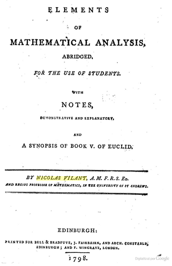 Frontpage of Mathematical Analysis (1798) by Nicolas Vilant (1737-1807) Scottish mathematician